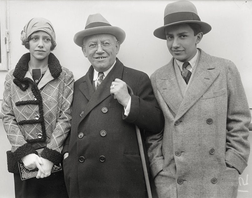 L. to R. : Rosabelle Laemmle, Carl Laemmle & Carl Laemmle, Jr. (original image cropped : see source)